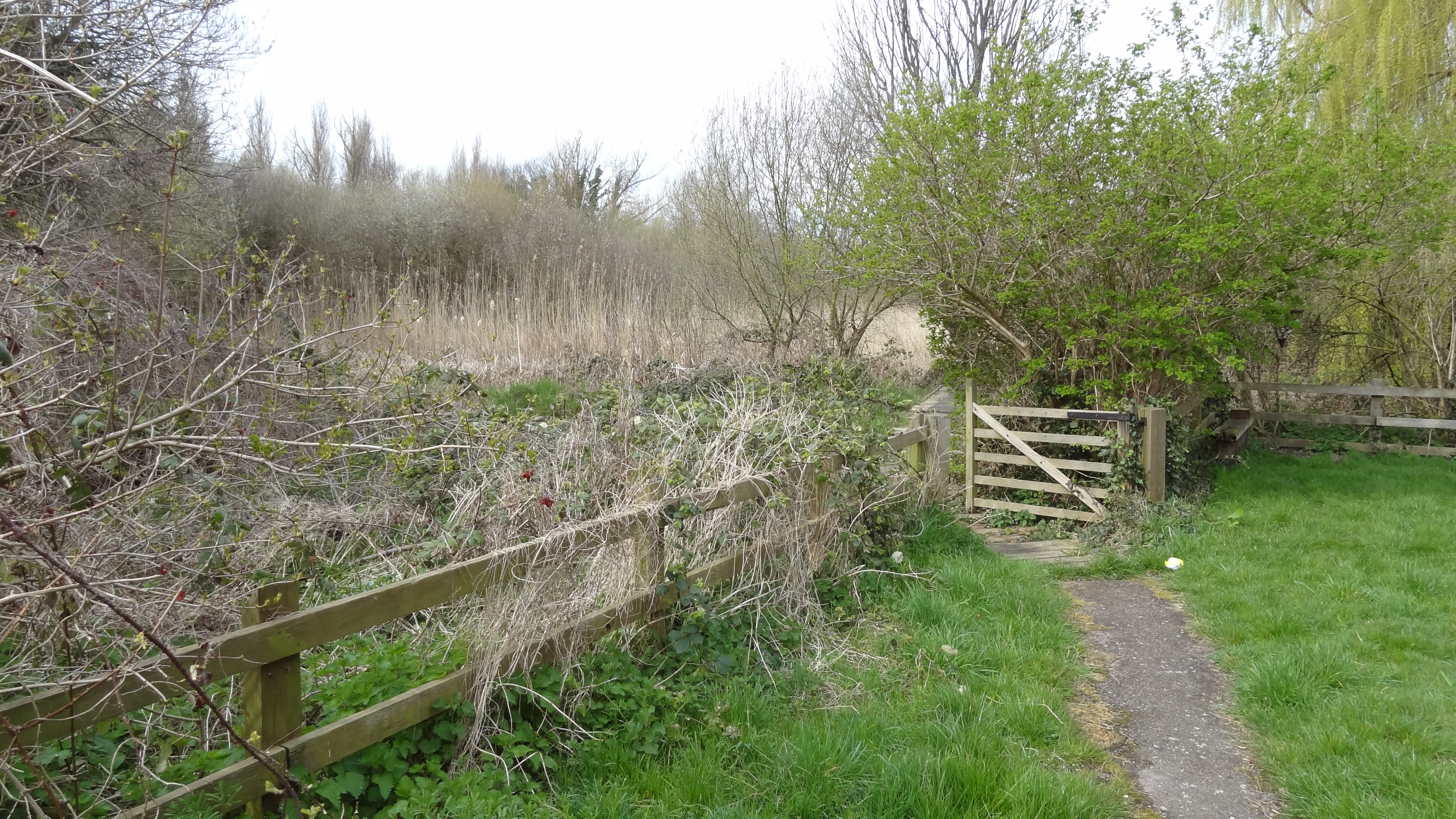 Spencer Road Wetlands in Carshalton, London